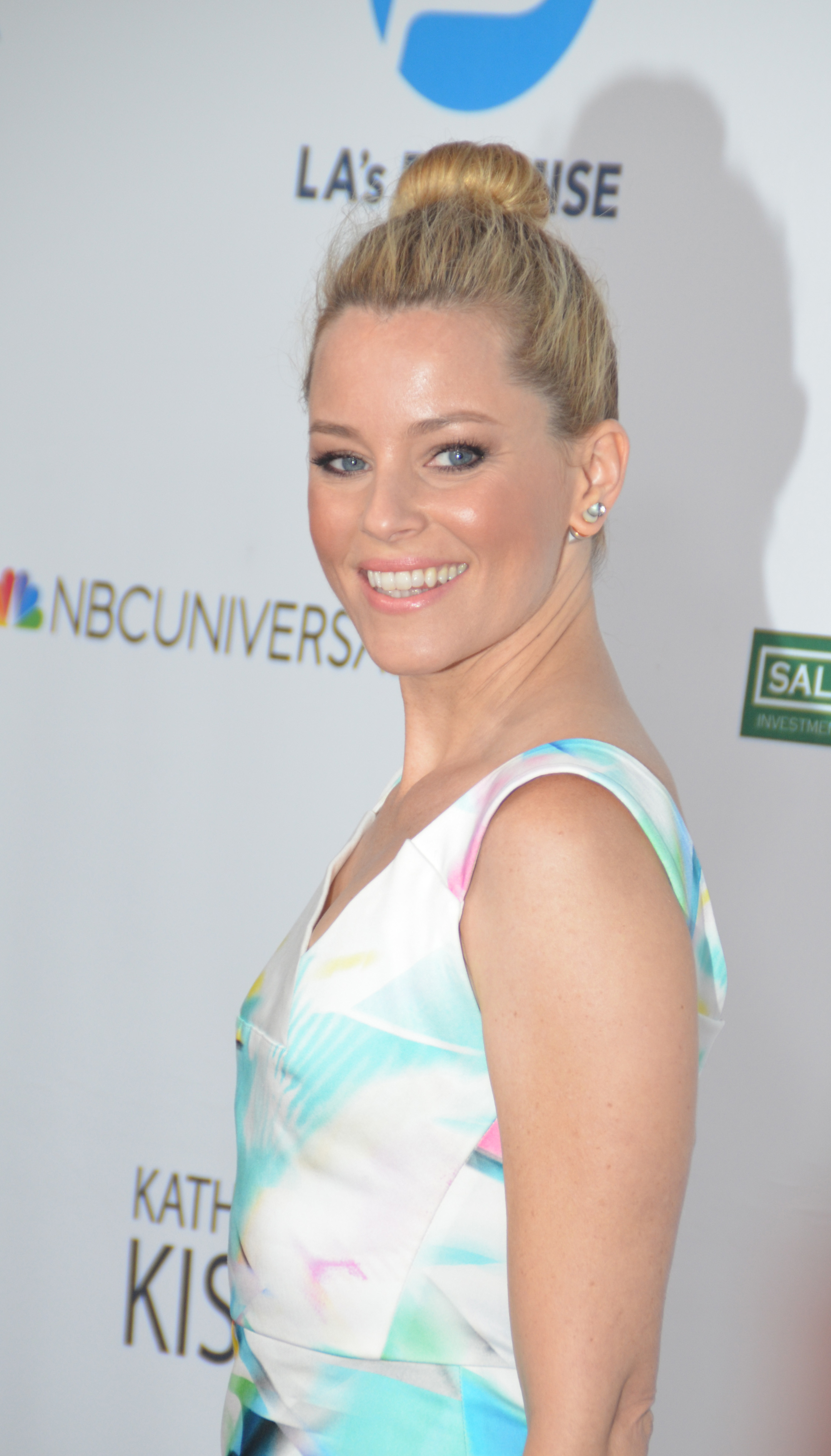 Actress Elizabeth Banks at L.A.'s Promise Annual Gala honoring Robert Rodriguez and Universal Filmed Entertainment Group chairman Jeff Shell on September 30, 2014